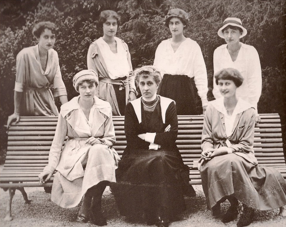 Infanta Marie Anne of Portugal with her daughters August 1920